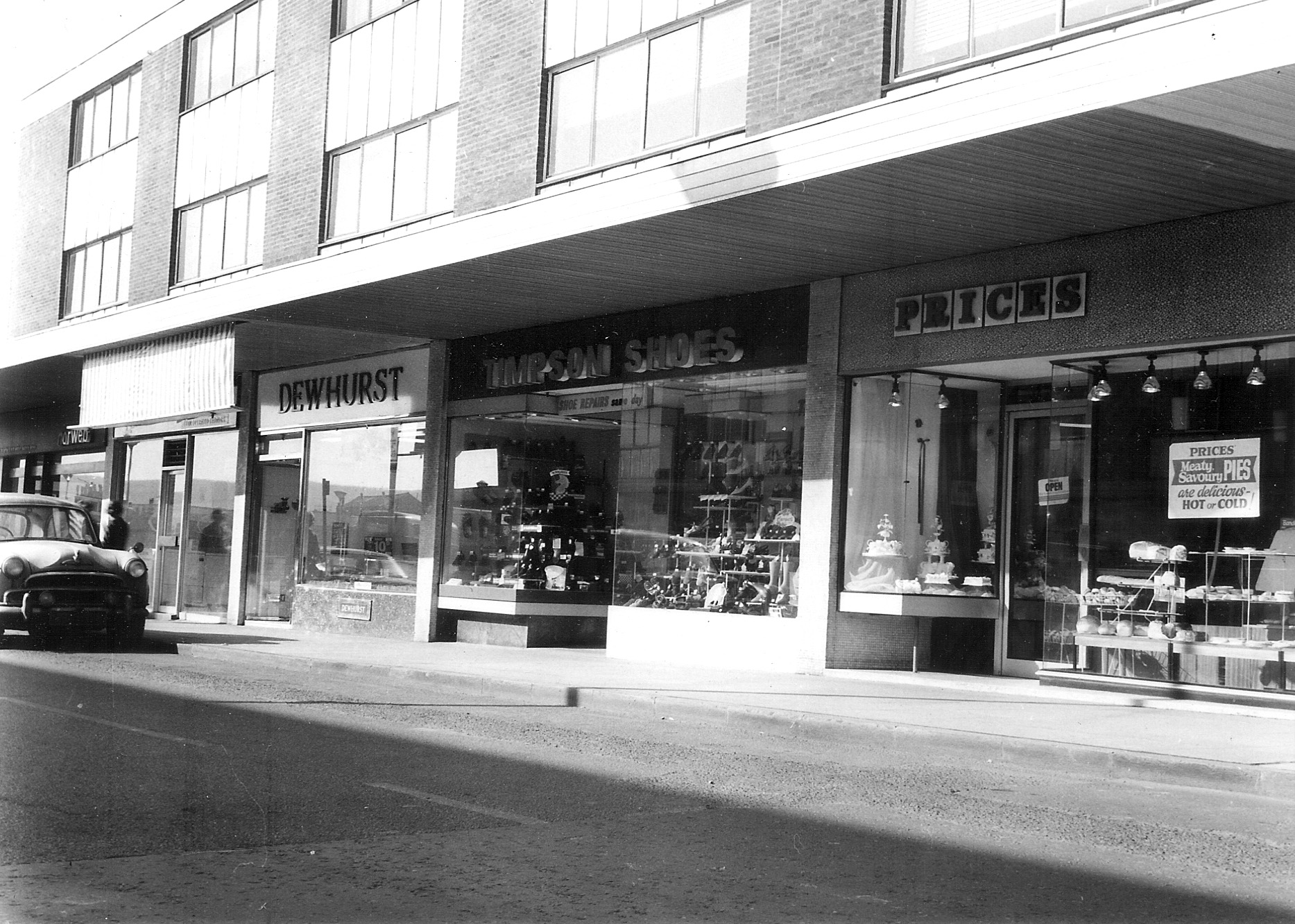 Looking west along Dale Street in the town centre of Radcliffe, this image shows the Timpson shoe shop, and a nearby Dewhurst Butcher shop. The shoe shop was closed around 1984 (from Timpsons archive dept).